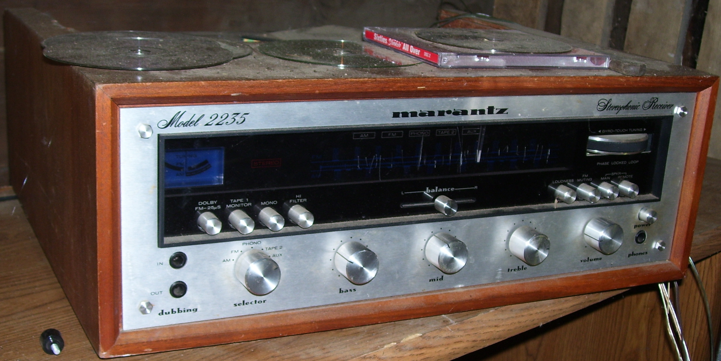 Marantz 2235 receiver